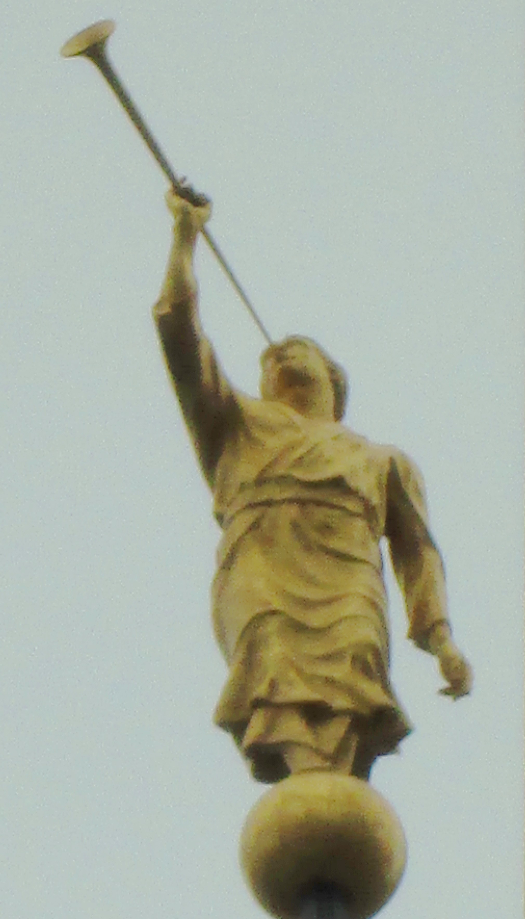 A gilded statue of the Angel Moroni on top of the Manhattan New York Temple of the Church of Jesus Chirst of Latter-Day Saints.